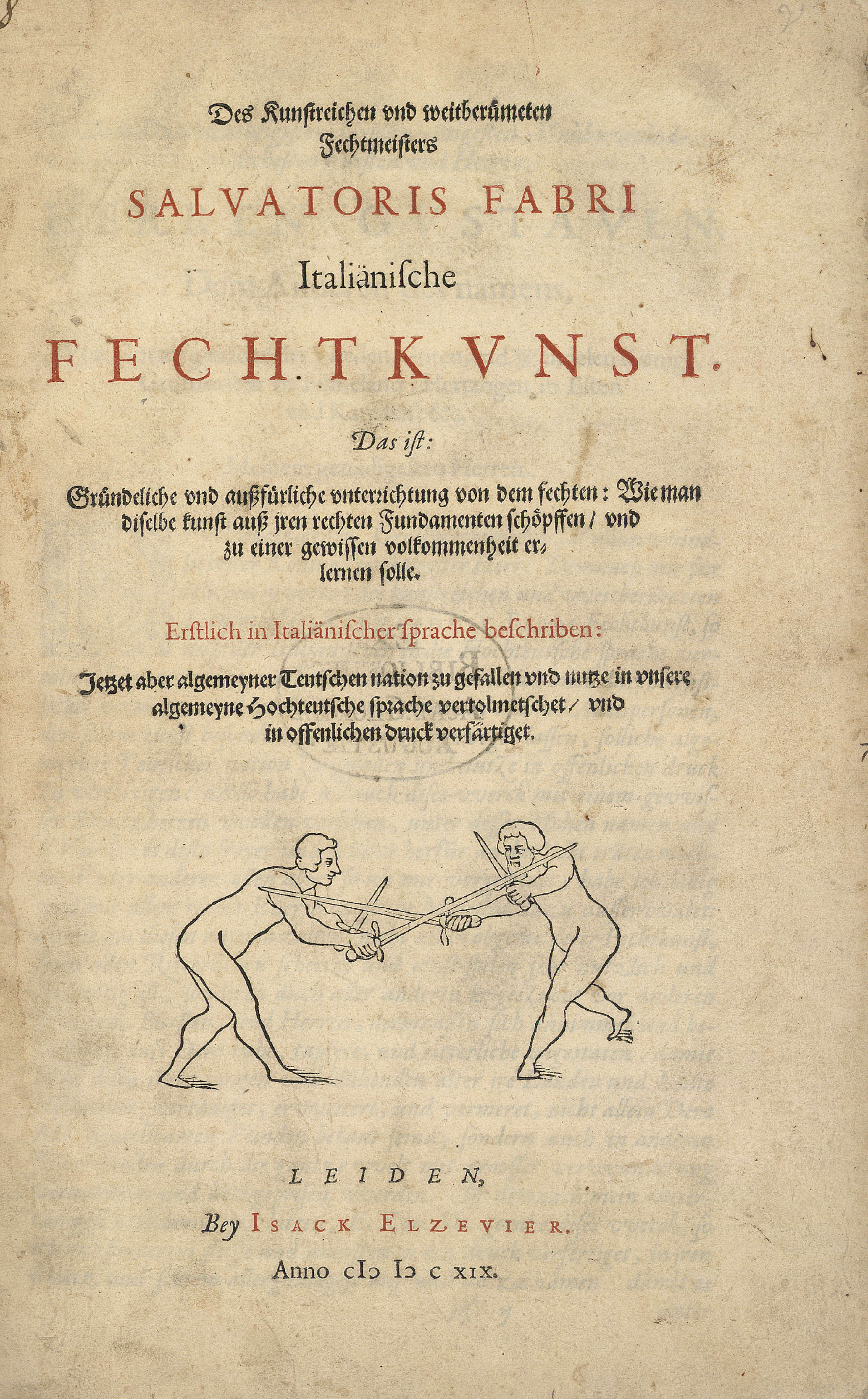 This is a scan of the historical document